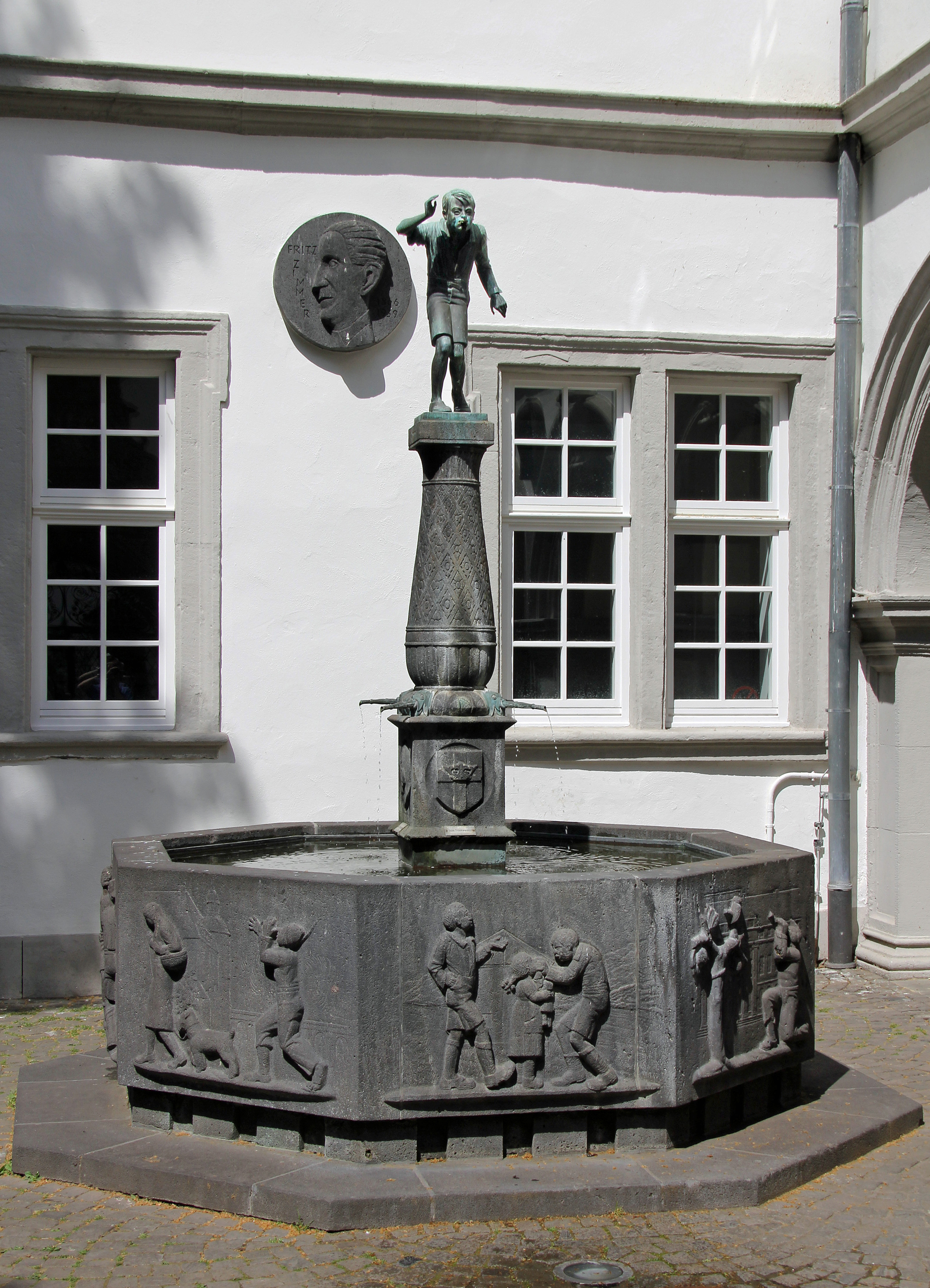 City hall of Koblenz - Schängel-Fountain